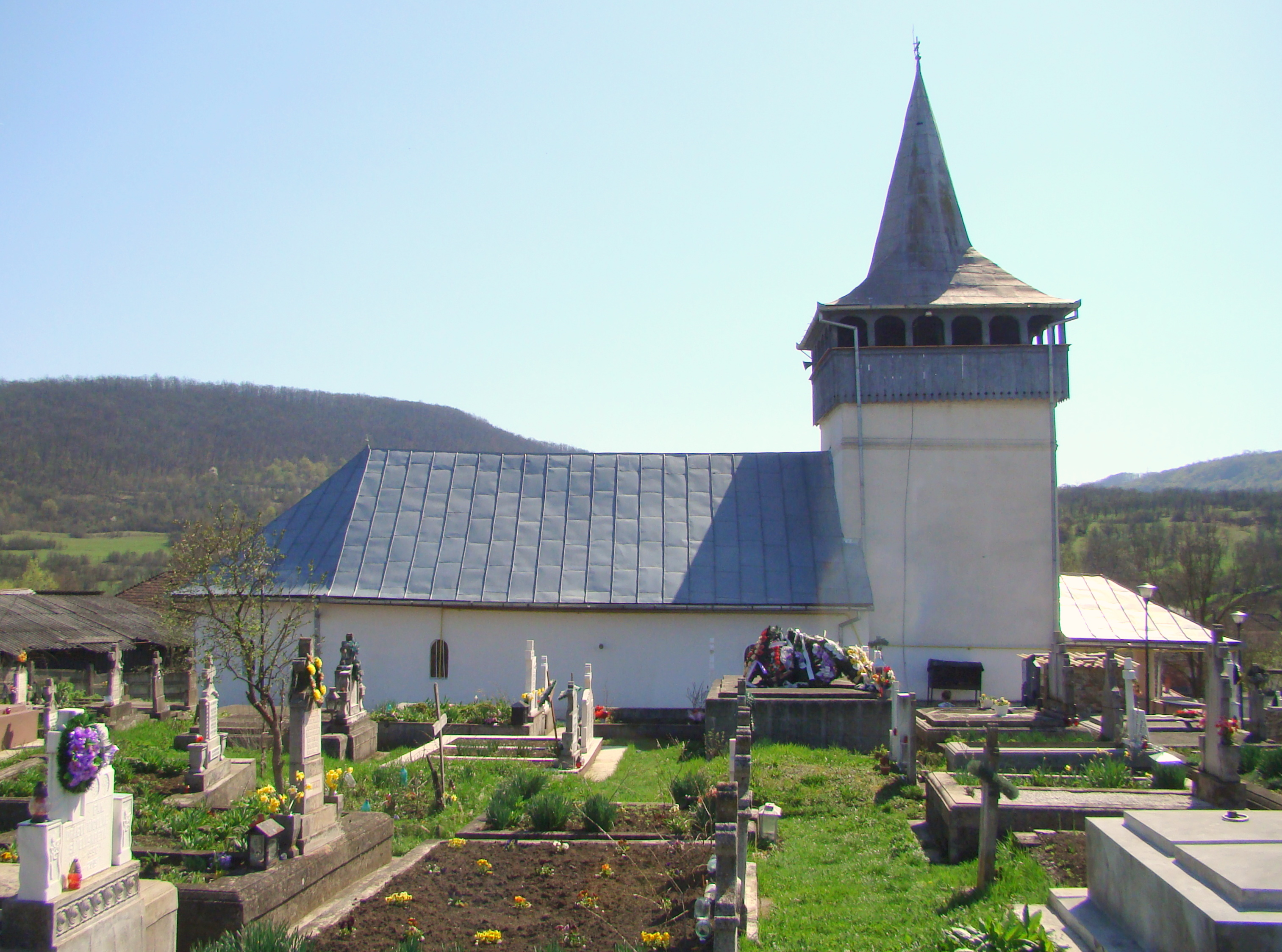 Saint Paraskeva's church in Zlaști, Hunedoara county, Romania